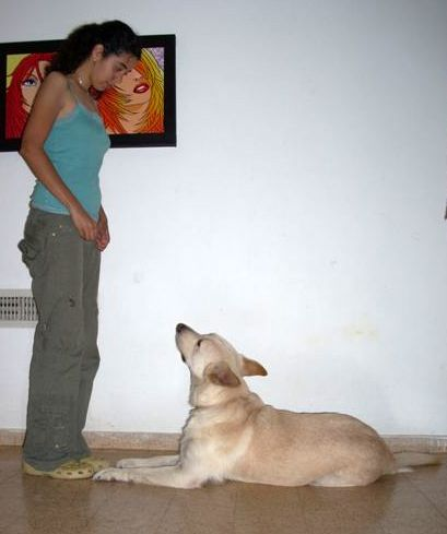 Dog training using positive reinforcement. The dog exhibits the "down" position.